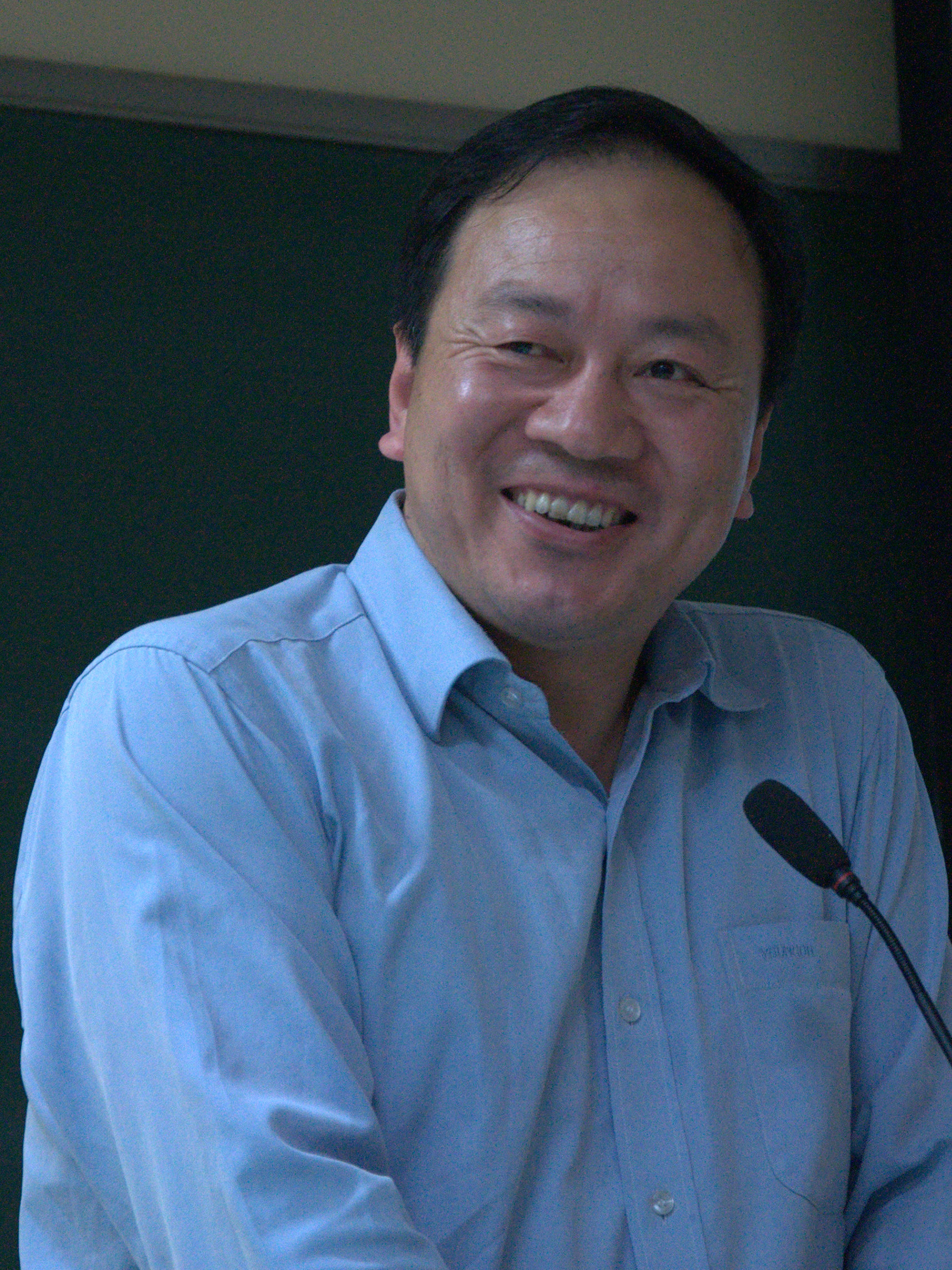 Wang Keqin, chief journalist of China Economic Times